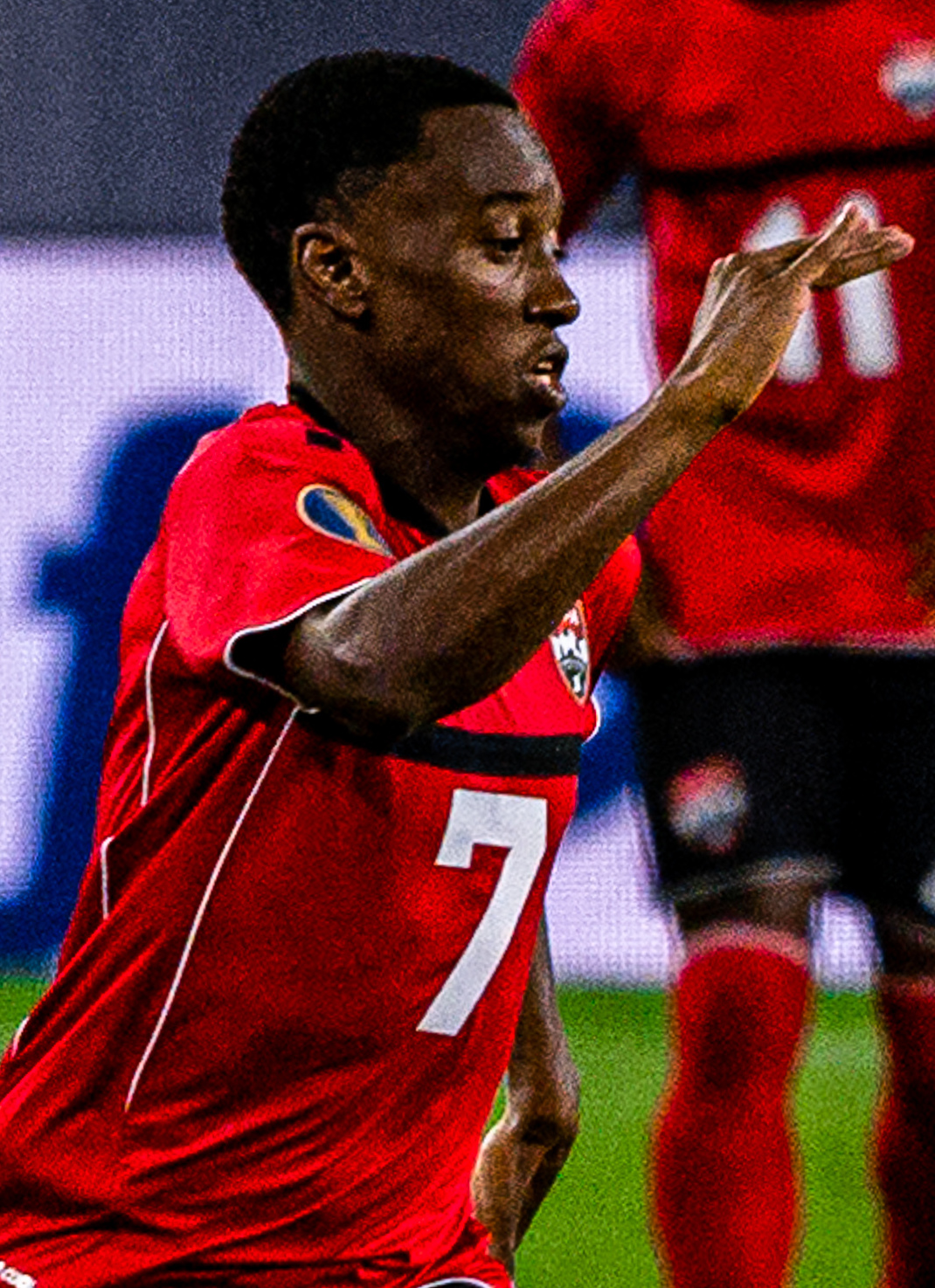 USMNT vs. Trinidad and Tobago